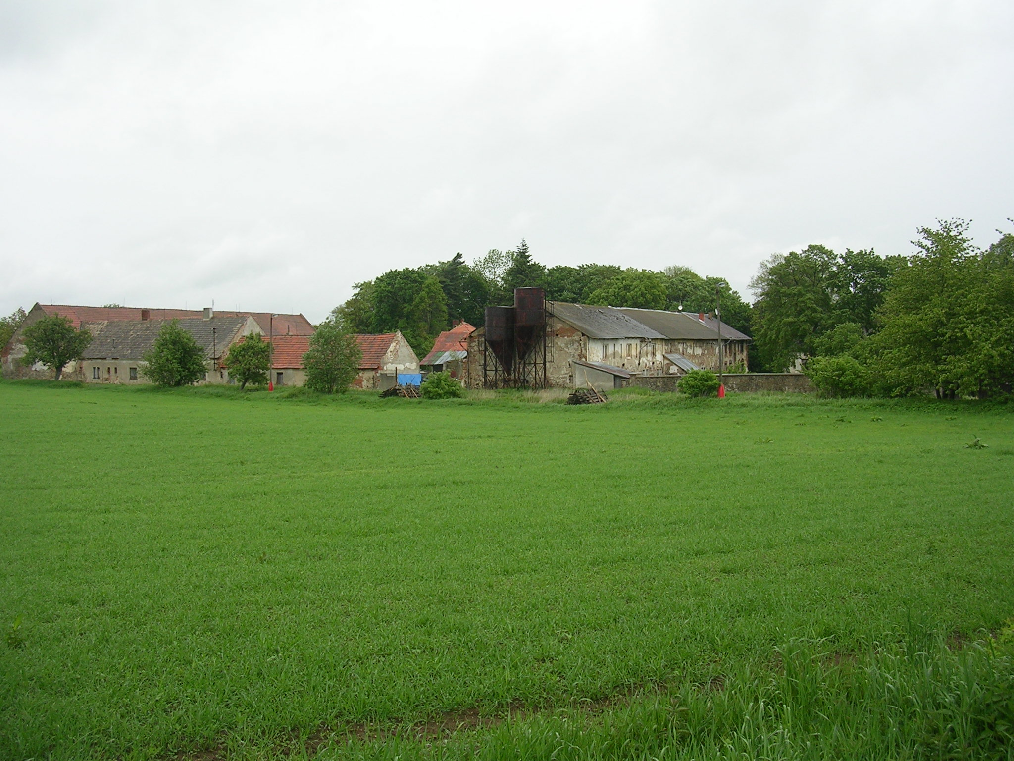 Neustupov-Vlčkovice, Benešov District, Central Bohemian Region, the Czech Republic.